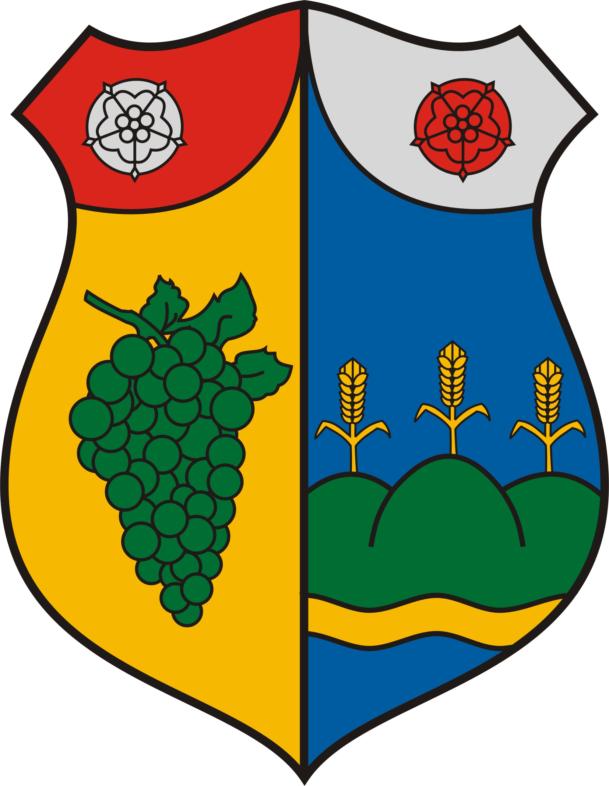 Coat of arms of Hosszúhetény, Hungary